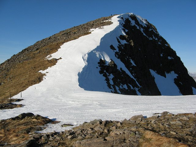 Stob Ghabhar The final pull to the top from the south. Headwall of Coirein Lochain on the right.